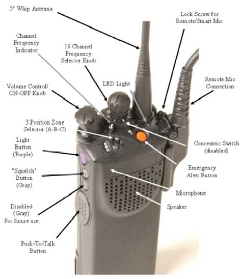 Source